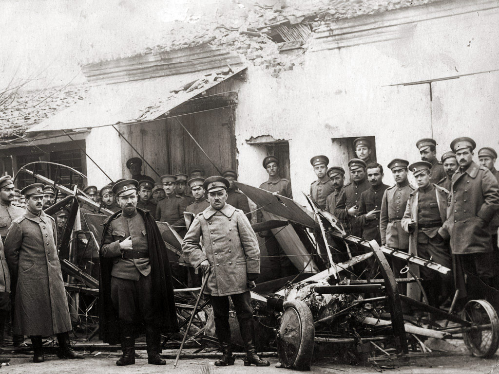 A British combat aeroplane shot down by Bulgarian forces in/near Gevgeli, Macedonian Front, World War I